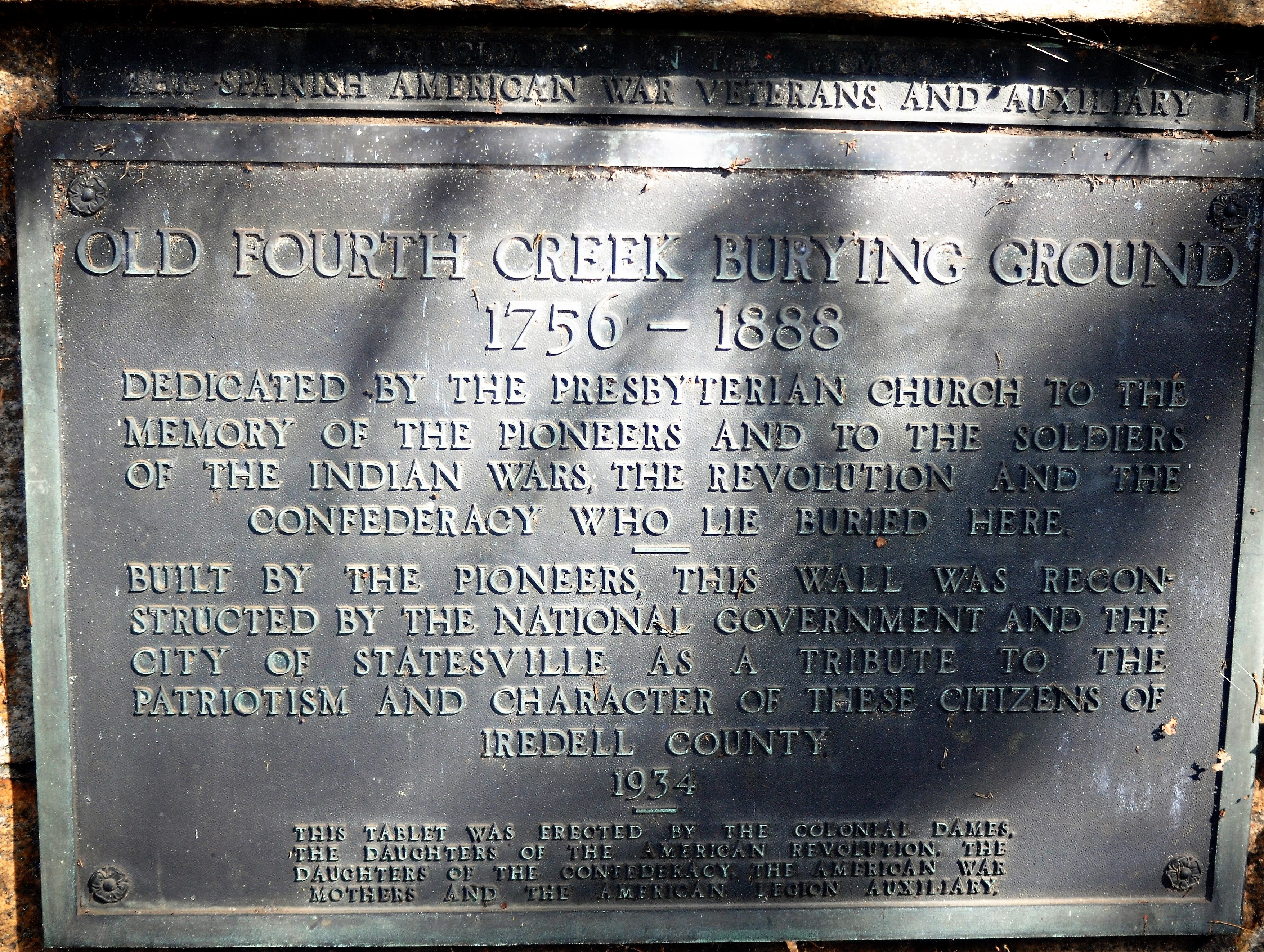 Old Fourth Creek Burying Ground, 1750-1888. dedicated by the Presbyterian Church to the memory of the pioneers and the soldiers of the Indian Wars, the Revolution and the Confederacy who lie buried here. Built by the pioneers, this wall was reconstructed by the National Government and the city of Statesville as a tribute to the patriotism and character of these citizens of Iredell County. 1934 This tablet was erected by the Colonial Dames, the Daughters of the American Revolution, the Daughters of the Confederacy, the American War Mothers and the American Legion Auxillary.